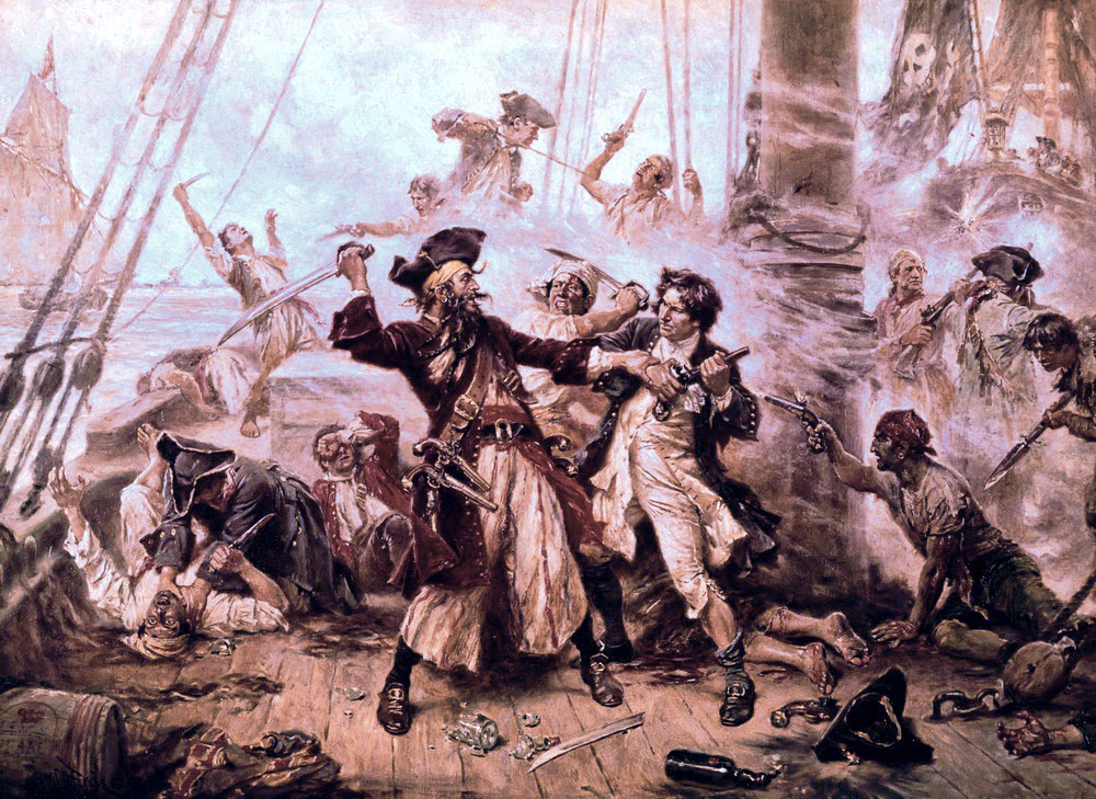 Capture of the Pirate, Blackbeard, 1718 depicting the battle between Blackbeard the Pirate and Lieutenant Maynard in Ocracoke Bay